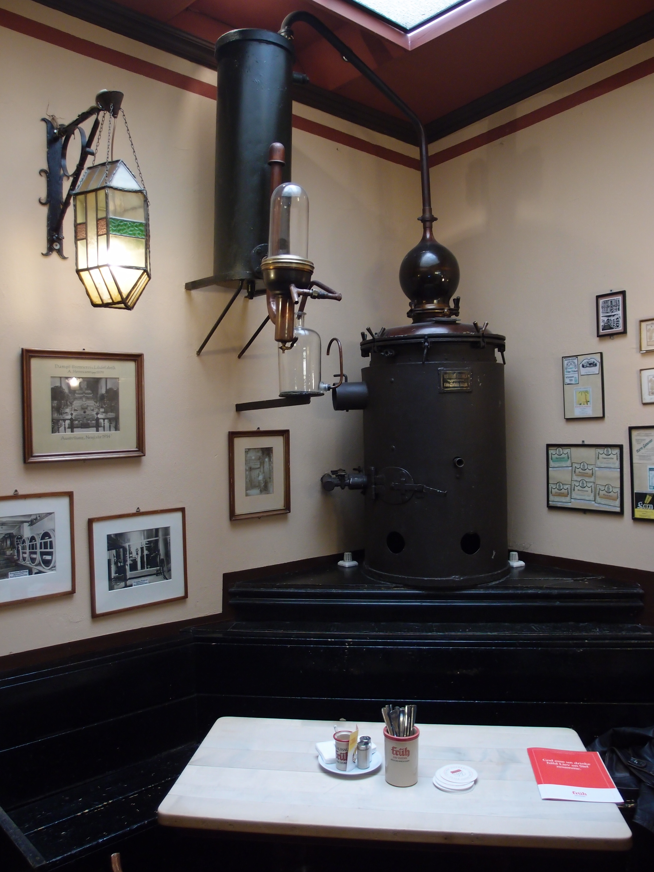 Brauhaus "Früh em Veedel", Köln-Severinsviertel, historische Destille Datum: 22.04.2012 Urheber: M. Pfeiffer alias Benutzer:Gordito1868 Quelle: privates Fotoarchiv des Urhebers Garantieerklärung des Urhebers: es handelt sich um ein authentisches Originalfoto, das nicht via Fotomanipulation verändert wurde